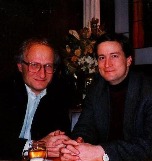 John Edward Kelly (r.) and Krzysztof Meyer (l.) after the premiere of Meyer's Saxophone Concerto, 11 I 1994, Stuttgart